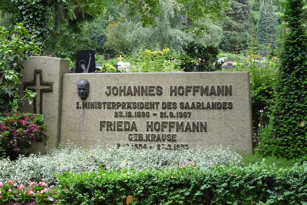 Grave of Johannes Hoffmann